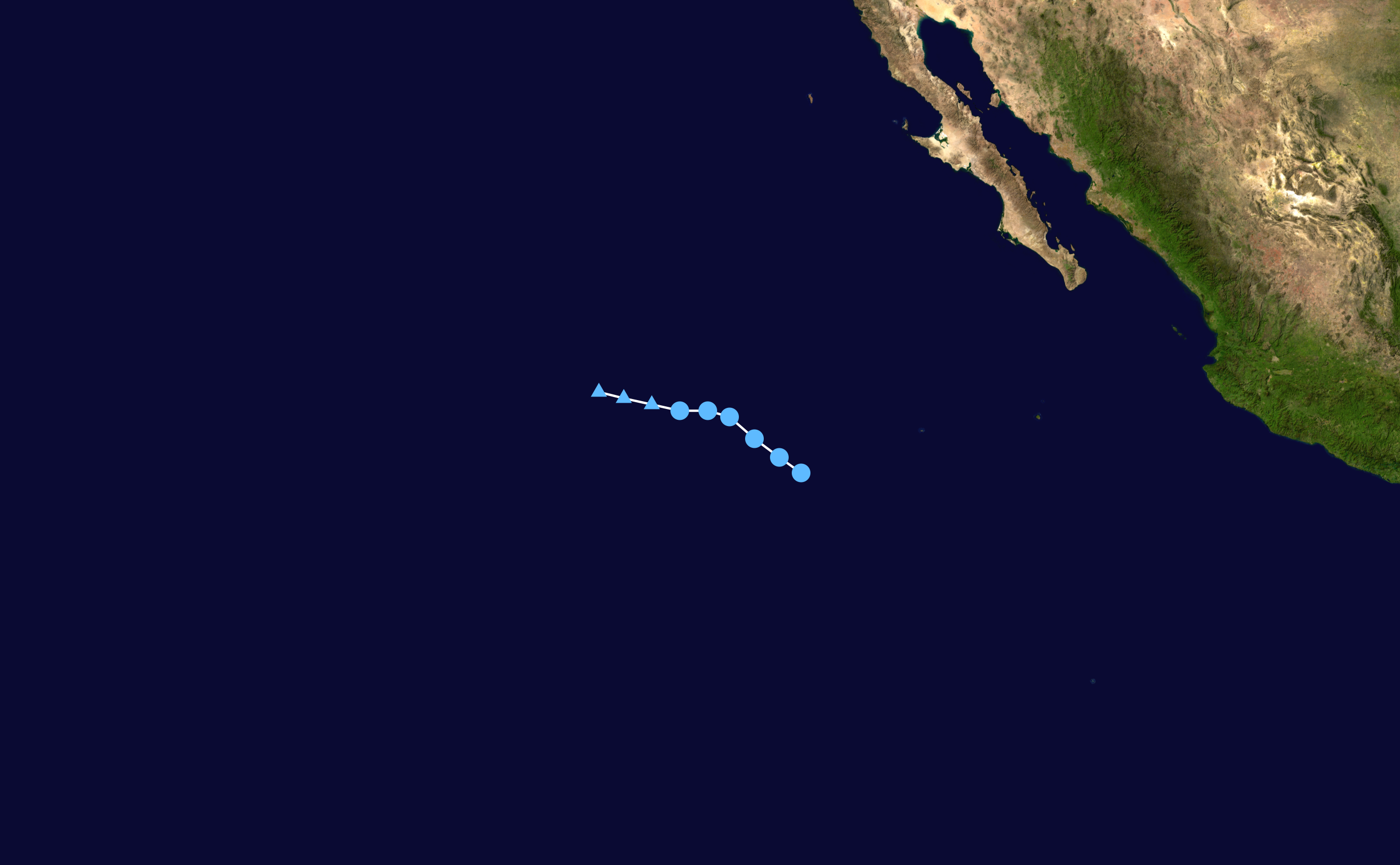 Track map of Tropical Depression Four-E of the 2007 Pacific hurricane season. The points show the location of the storm at 6-hour intervals. The colour represents the storm's maximum sustained wind speeds as classified in the Saffir–Simpson scale (see below), and the shape of the data points represent the nature of the storm, according to the legend below. Saffir–Simpson scale Tropical depression≤38 mph≤62 km/h Category 3111–129 mph178–208 km/h Tropical storm39–73 mph63–118 km/h Category 4130–156 mph209–251 km/h Category 174–95 mph119–153 km/h Category 5≥157 mph≥252 km/h Category 296–110 mph154–177 km/h Unknown Storm type Tropical cyclone Subtropical cyclone Extratropical cyclone / Remnant low / Tropical disturbance / Monsoon depression